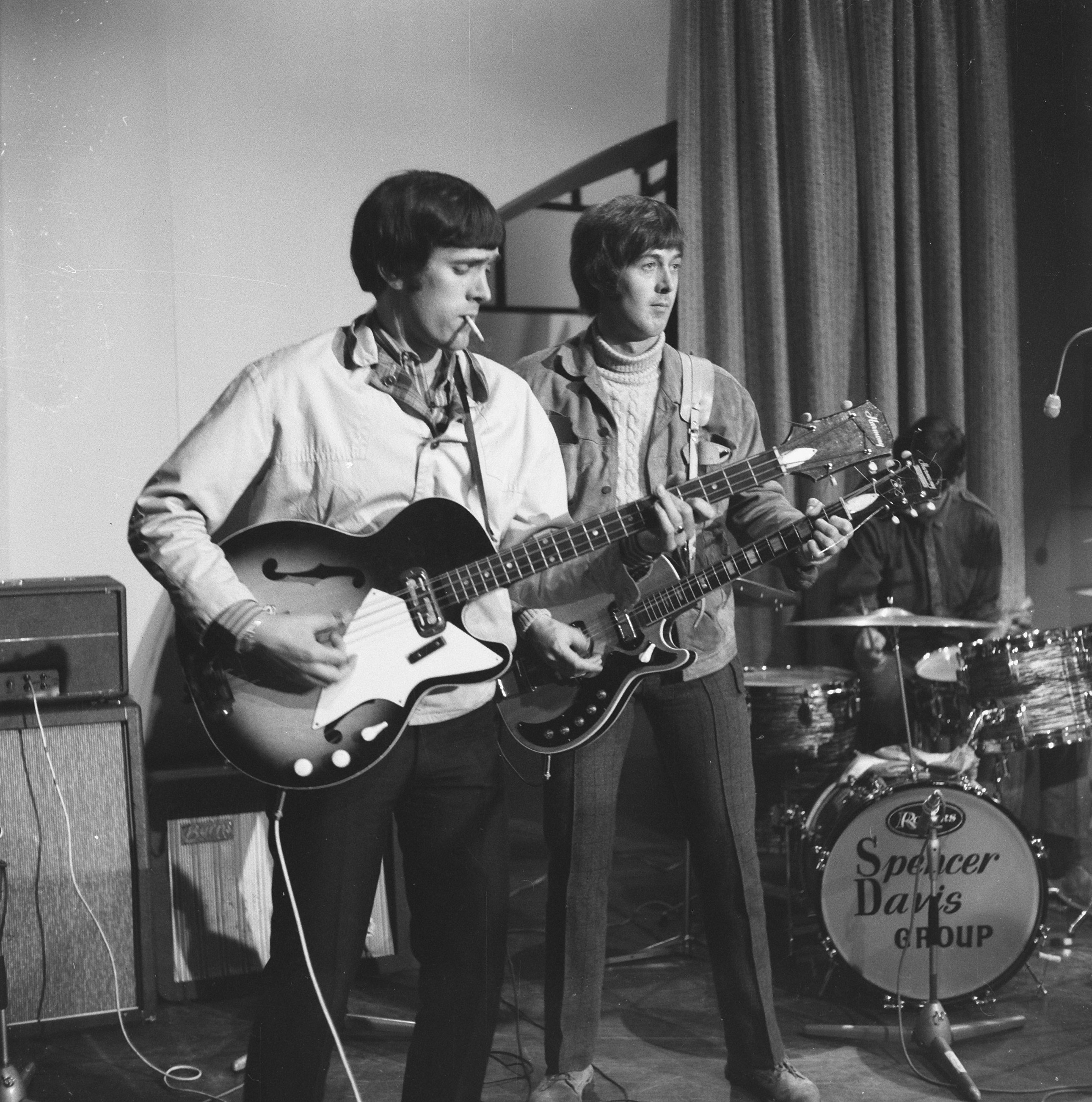 Rehearsal of The Spencer Davis Group, before performing at the Grand Gala du Disque, Concertgebouw Amsterdam, 30 Sept. 1966. From left to right: Muff Winwood (bass), Spencer Davis (guitar) & Pete York (drums)